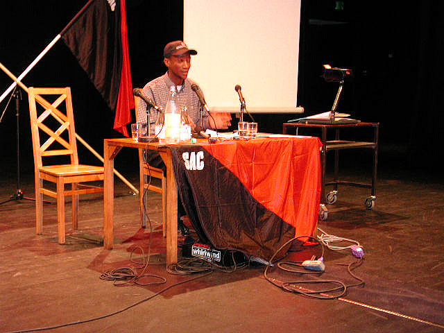 South-african member of the Zalabasa anarcho-communist group invited to speak at SAC-arranged seminar on labor groups around the world. He spoke about an umbrella globlization organisation fighting privatization